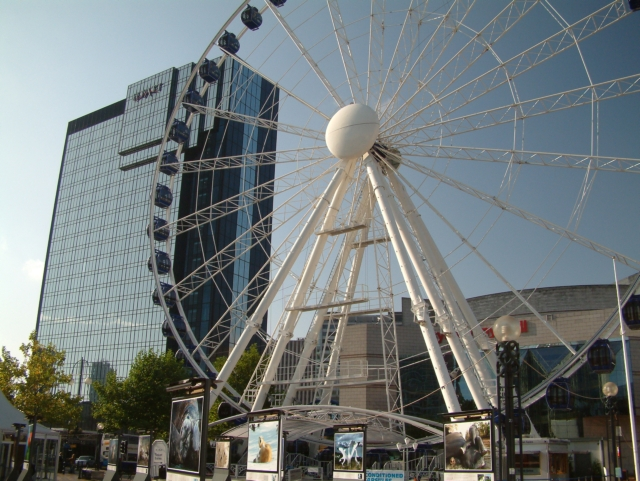 Centenary Square The Birmingham Wheel with the Hyatt Hotel behind. The wheel was in Paris prior to coming to Birmingham. It caused some embarrassment for the owners as the recorded commentary in the cabins was for Paris and it was in French. It was only a temporary feature of the square, but was nevertheless very popular.